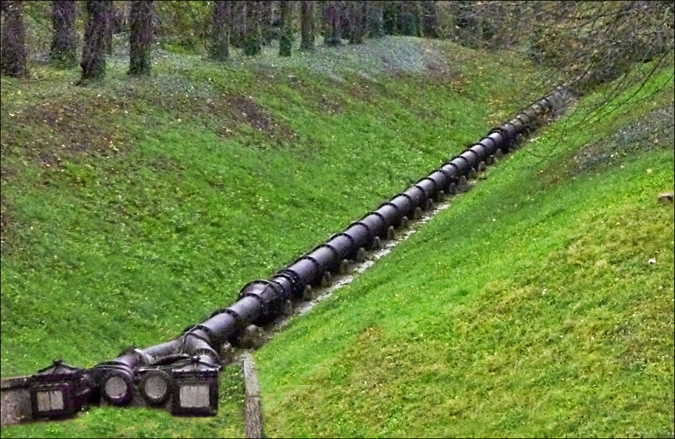 Marly Machines. Cast iron piping on the hill of Bougival.